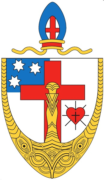 Hui Amorangi Crest